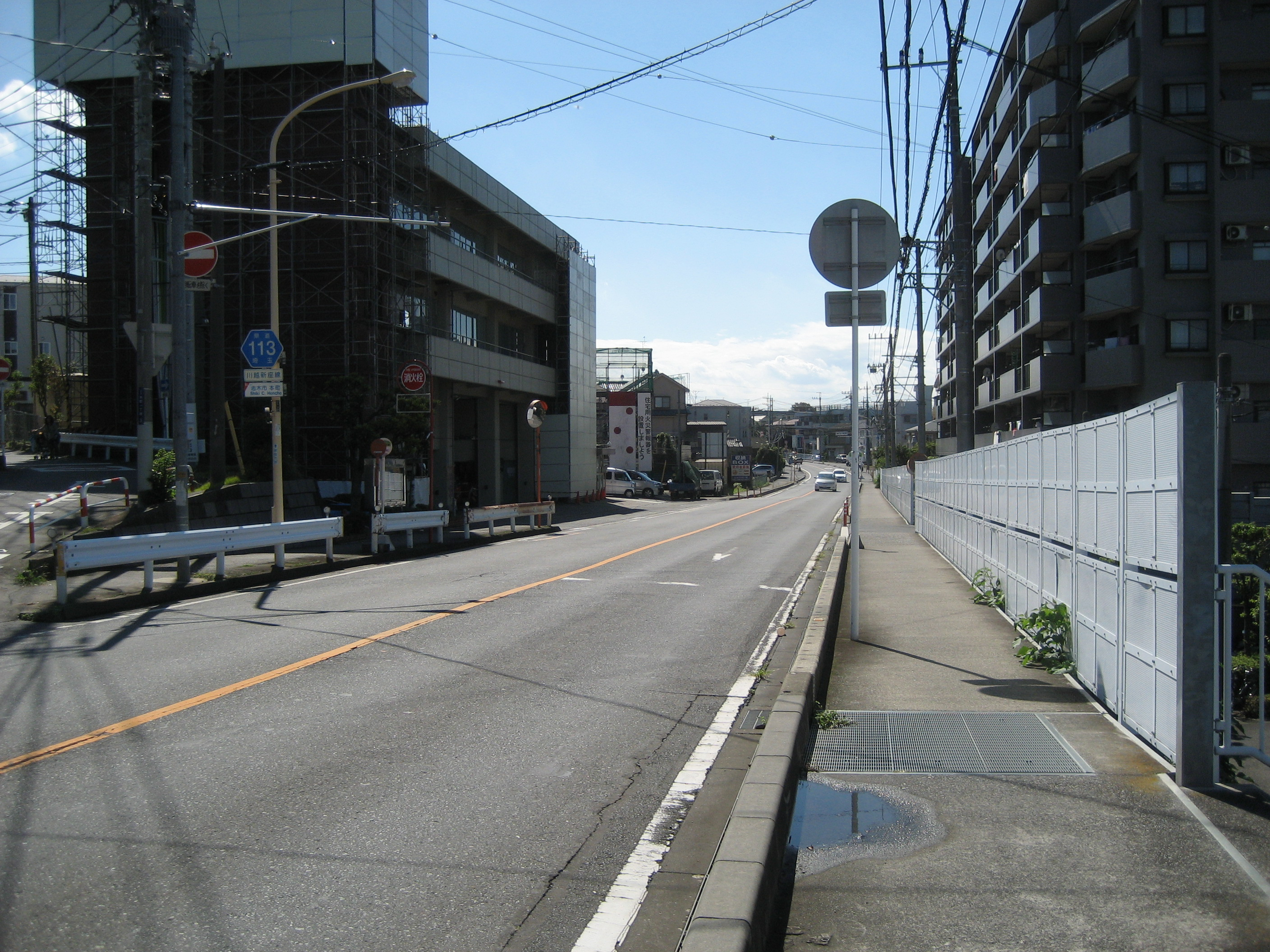 The Saitama Prefectural Road Route 113 in Shiki City